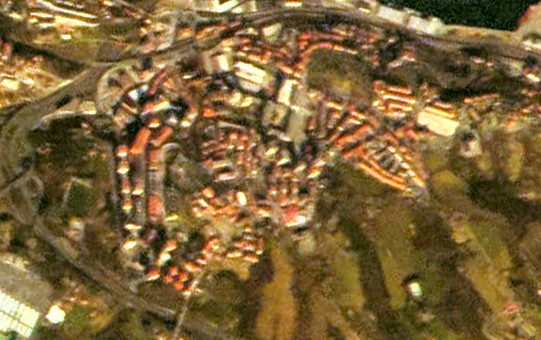 Altza, Donostia-San Sebastian. Gipuzkoa, Basque Country.